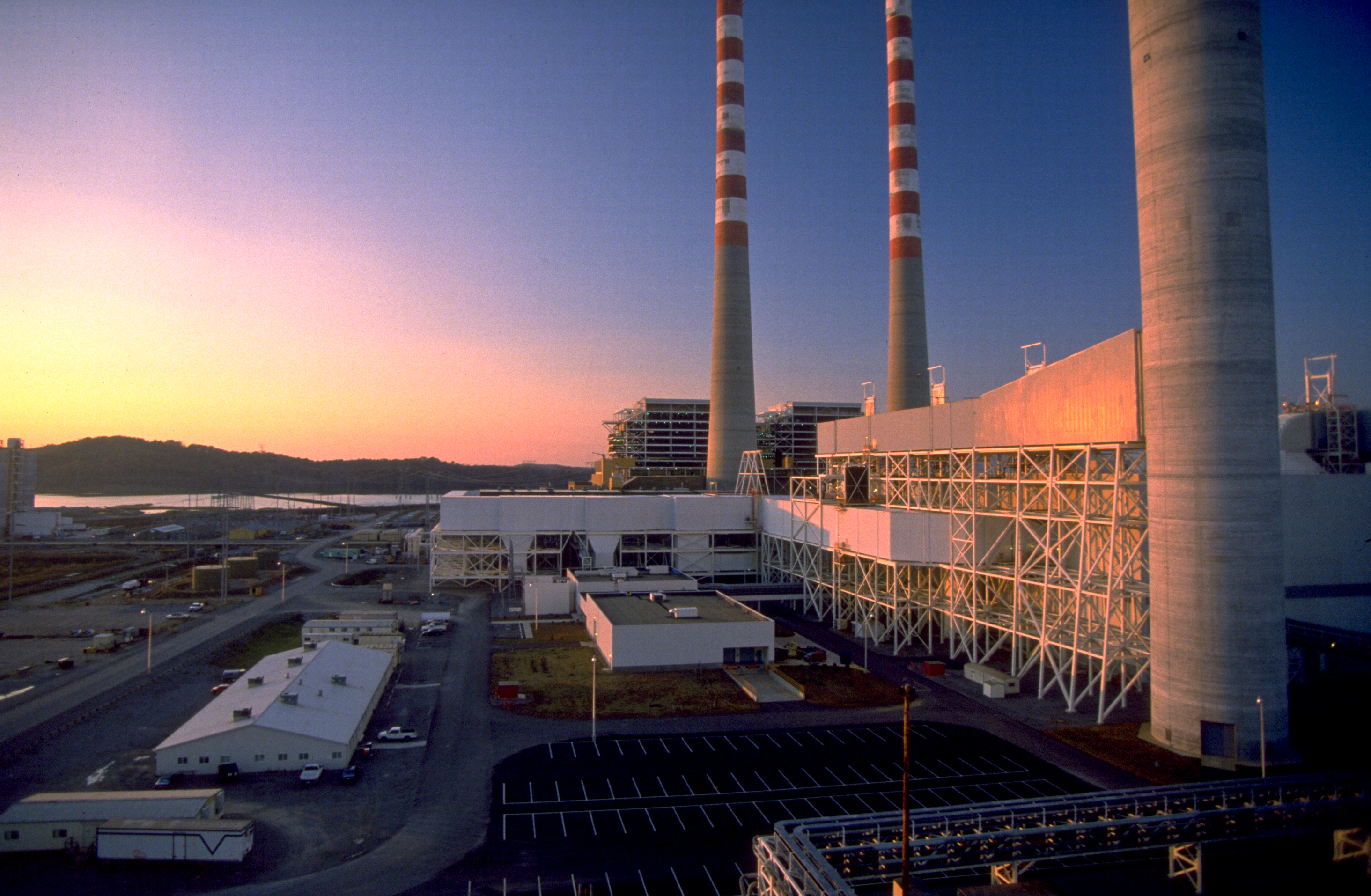 Cumberland Fossil Plant.